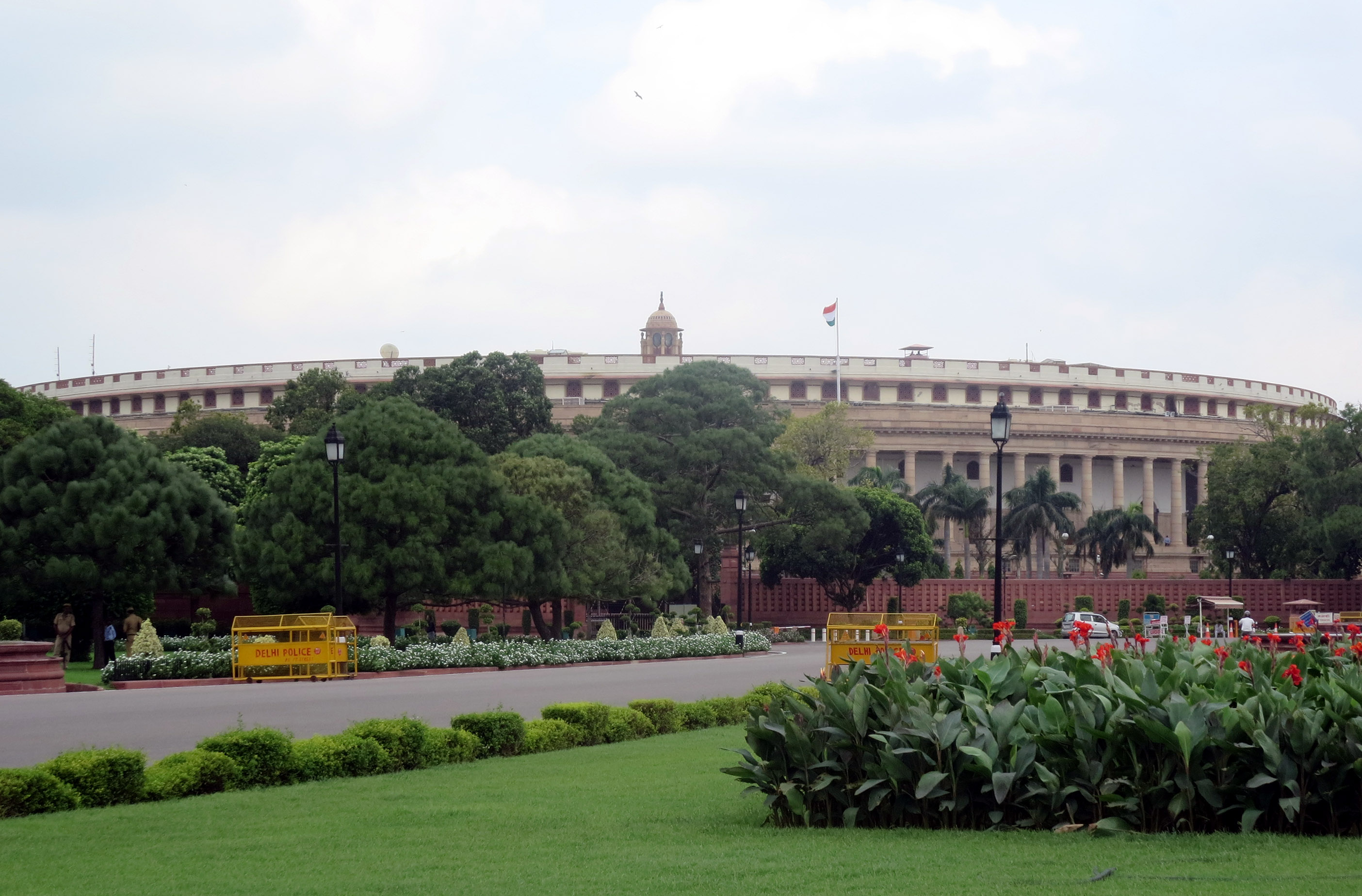 Sansad Bhavan in New Delhi